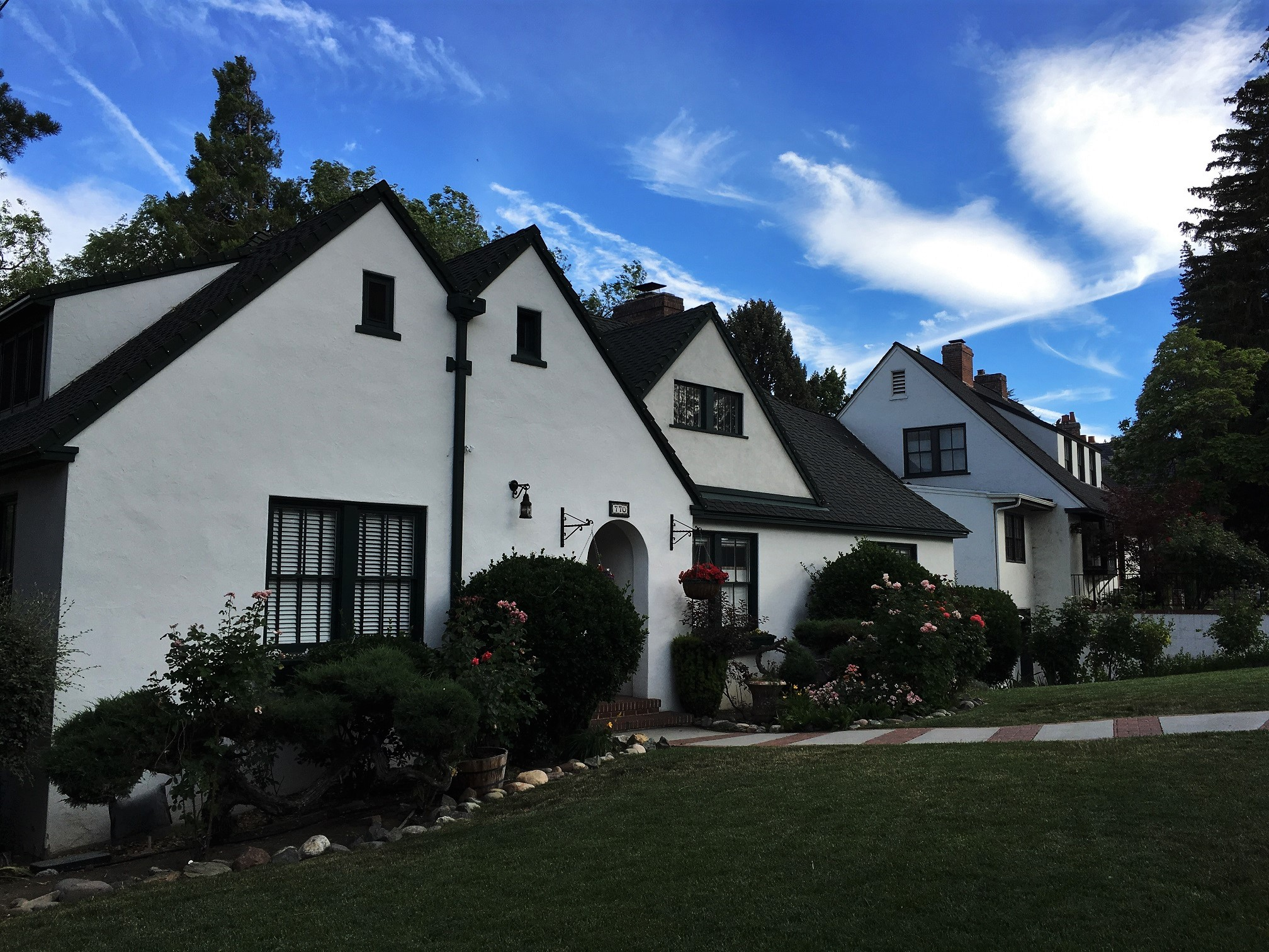 Newlands Historic District Scene portrayed is in the 700 block of California Avenue.